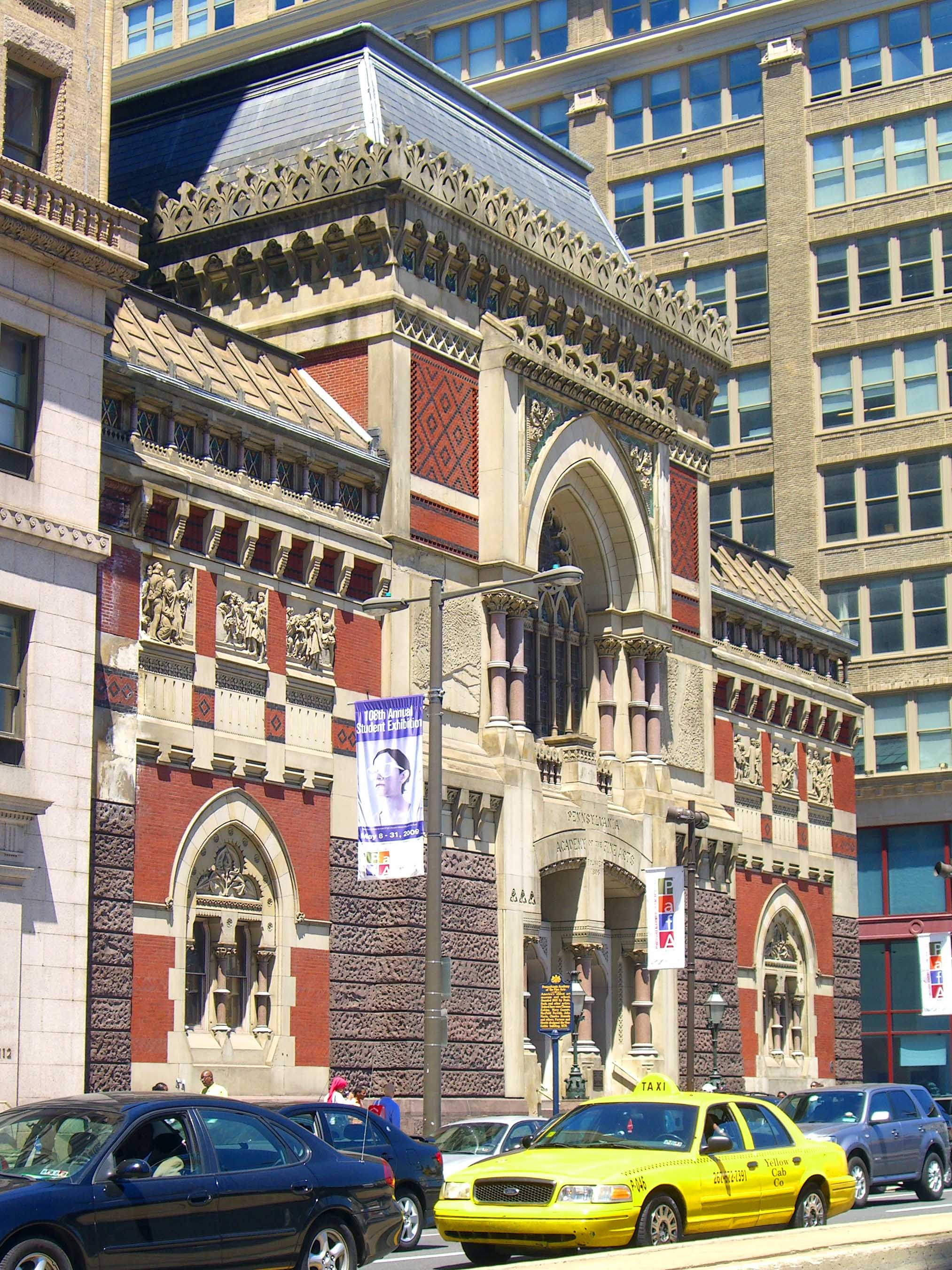 Pennsylvania Academy of the Fine Arts, Philadelphia, USA. Photo taken on May 21, 2009.